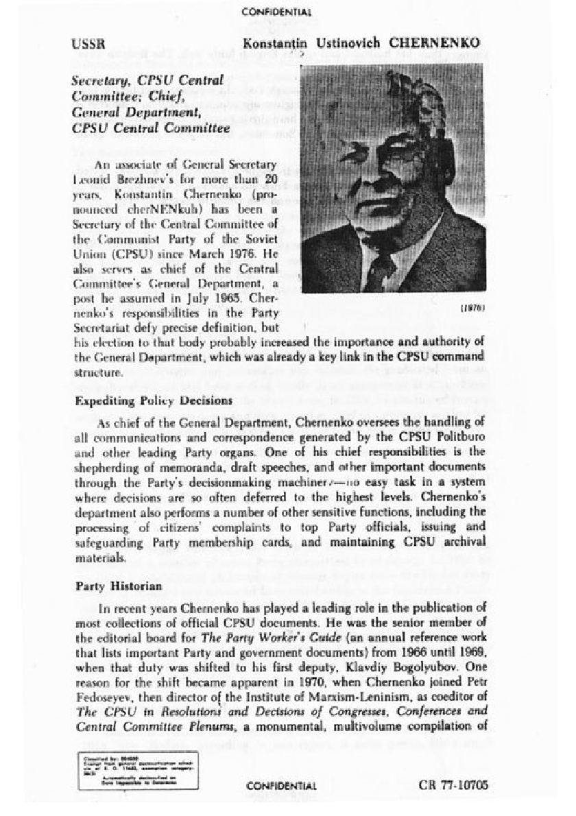 Document seized from the US Embassy in Tehran in 1979 by Iranian students